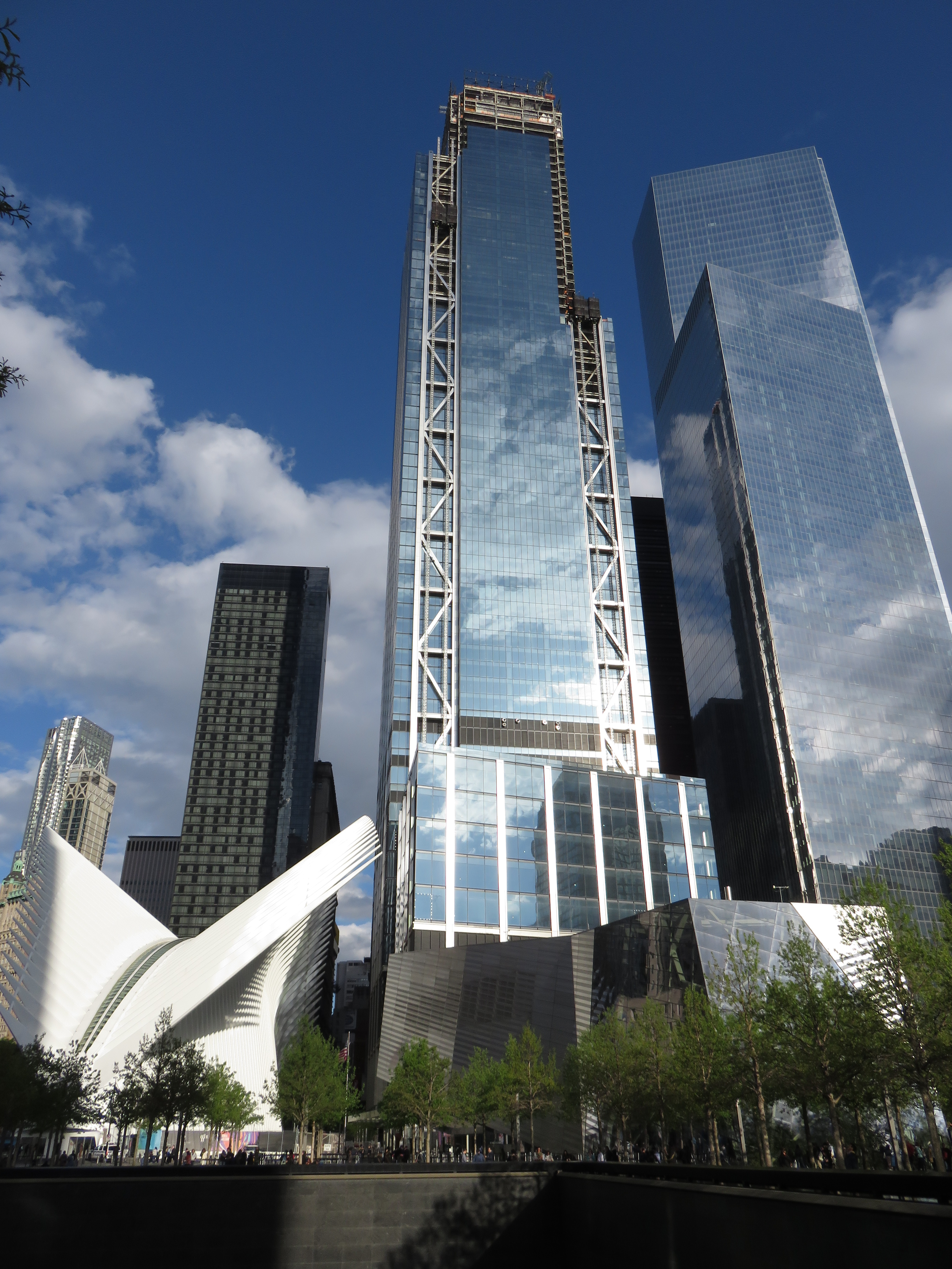 World Trade Center Transportation Hub, Three World Trade Center, and Four World Trade Center in 2017